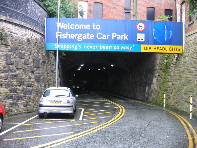 Fishergate Tramroad Tunnel, Preston Because there was no money to build an aqueduct across the River Ribble south of Preston, the two parts of the Lancaster Canal on opposite sides of the river were connected by a tramroad. This passed under Fishergate in the centre of Preston in a tunnel. The tramroad became disused by the 1860s but, because the canal had been bought by the London & North Western Railway, the railway company modified the approaches to the tunnel and converted it into road access to their Butler Street goods yard. More recently, with the conversion of the goods yard to a huge car park serving a new shopping mall, the tunnel has become an access road to the car park. This is the northern end of the tunnel at the foot of a ramp from Corporation Street.